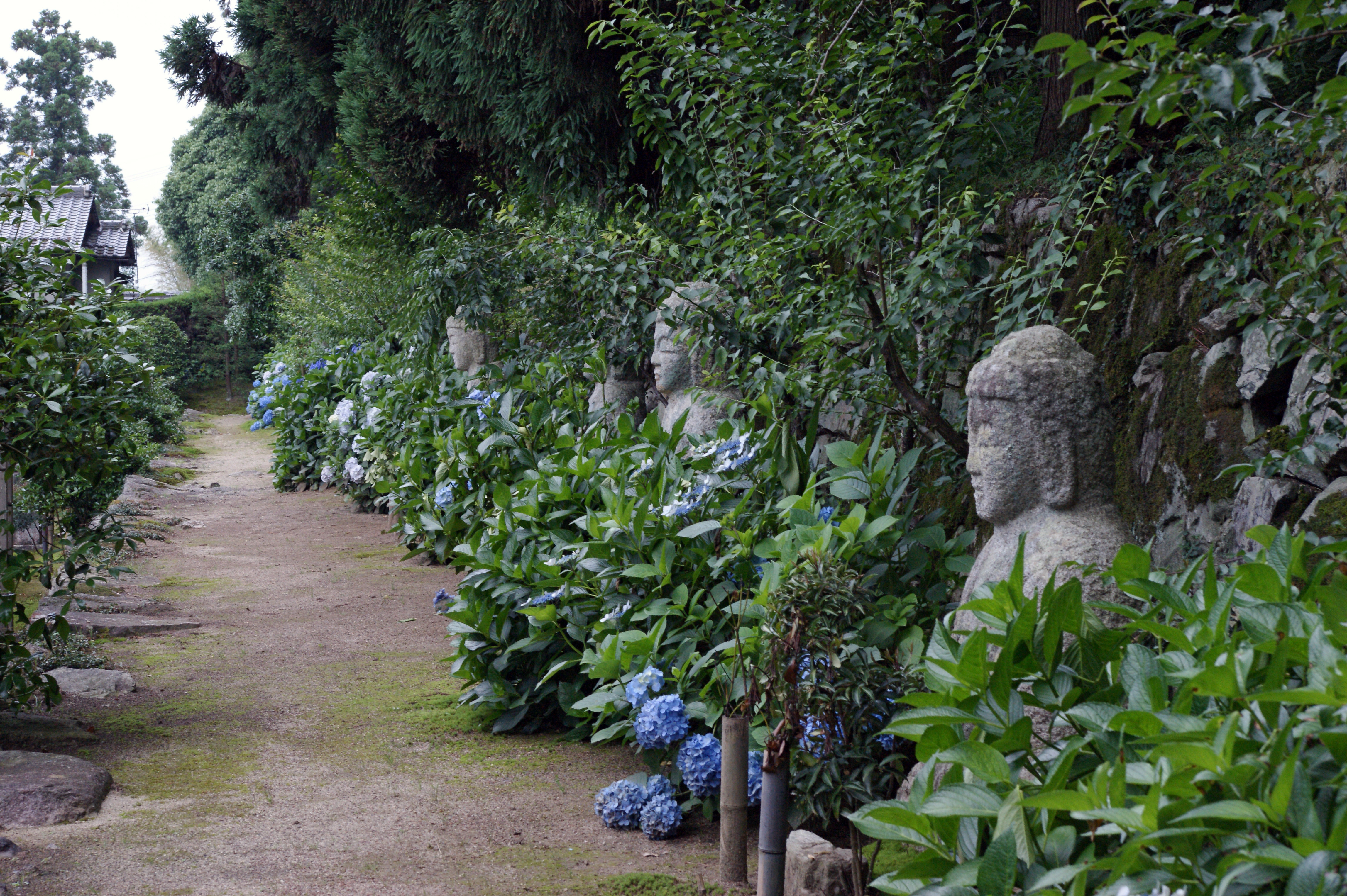 Statue of amitaabha in Jigendo precincts ,Sakamoto, Otsu, Shiga prefecture, Japan